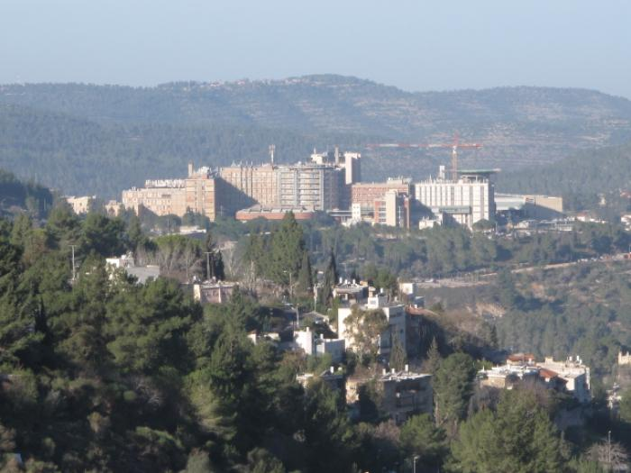 The Hadassah Medical Organization in Jerusalem - the university hospital in Ein Karem, a view from Mt. Herzl.